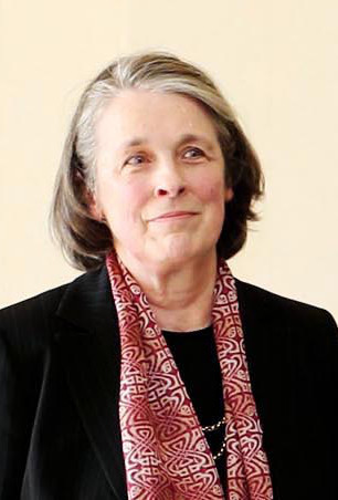 Susan Denham in 2014